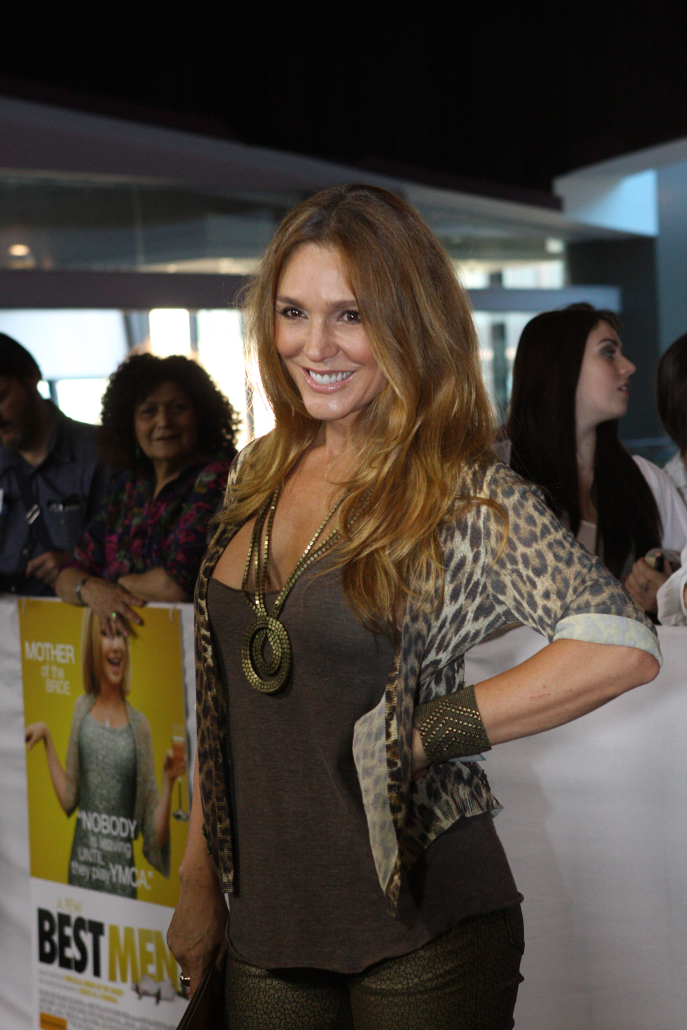 Australian actress and singer Tottie Goldsmith at A Few Best Men movie premiere In Sydney, Australia, January 2012